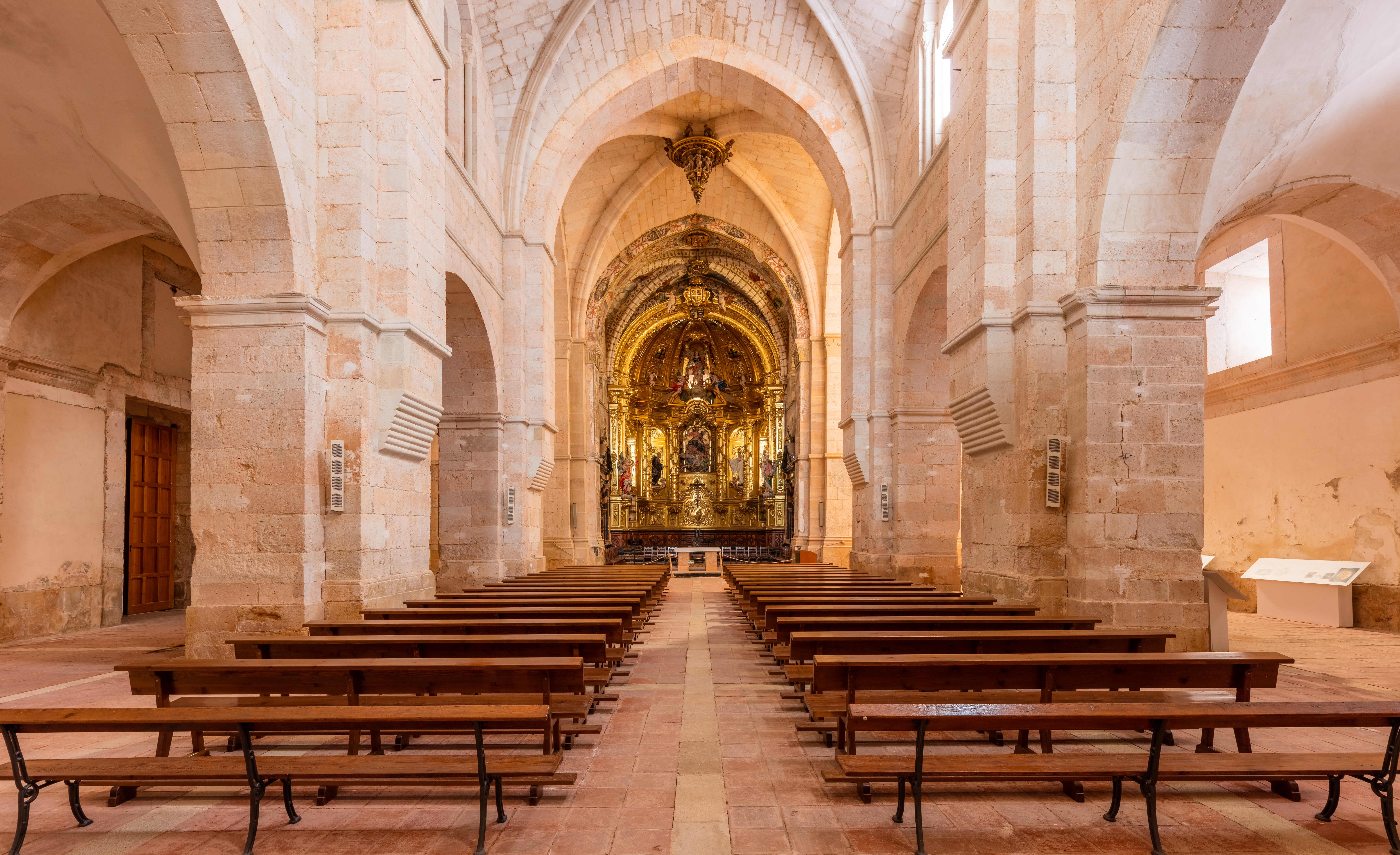 Monastery of Santa María de Huerta, Santa María de Huerta Soria, Spain